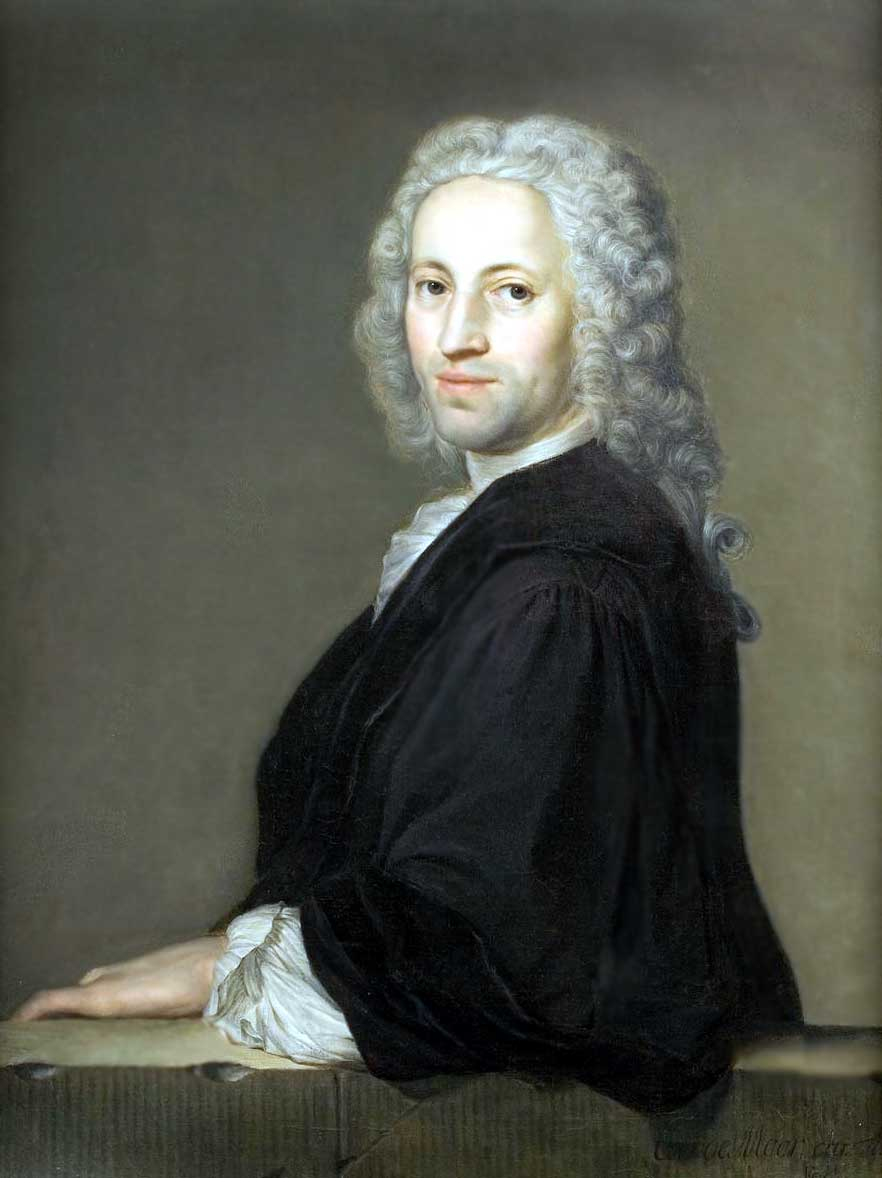 Bernard Siegfried Albinus (1697-1770) German physician